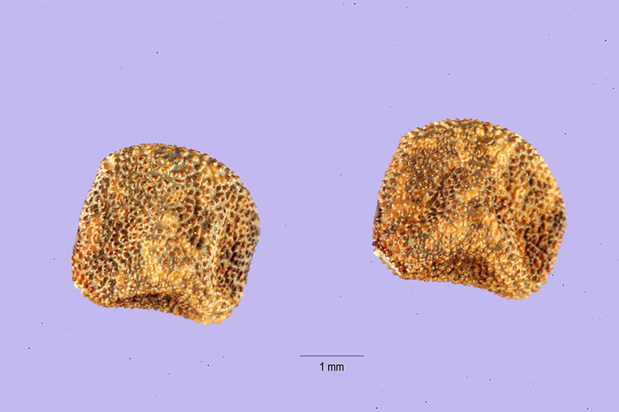 Vicia lathyroides seeds